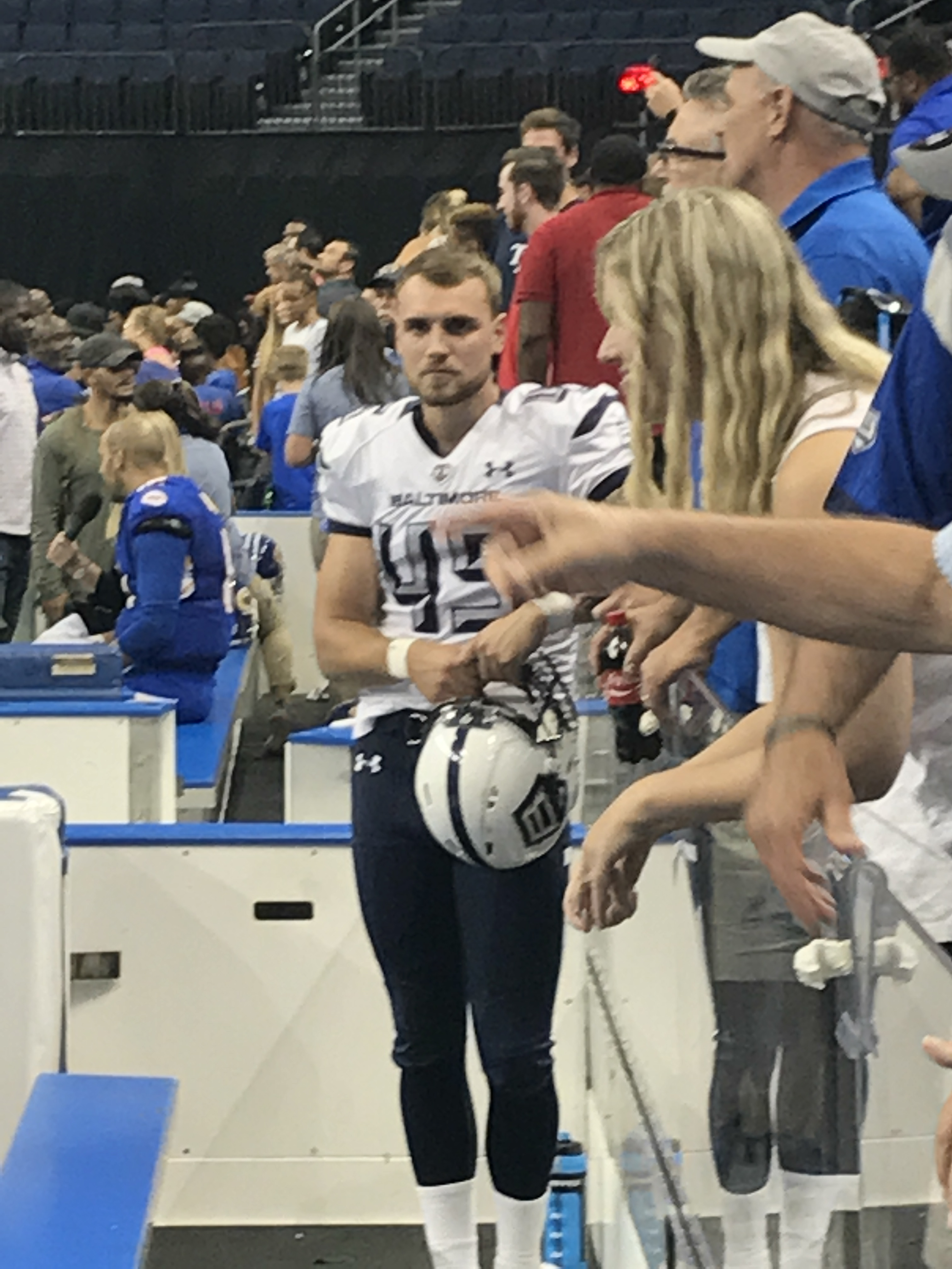 Pat Clarke